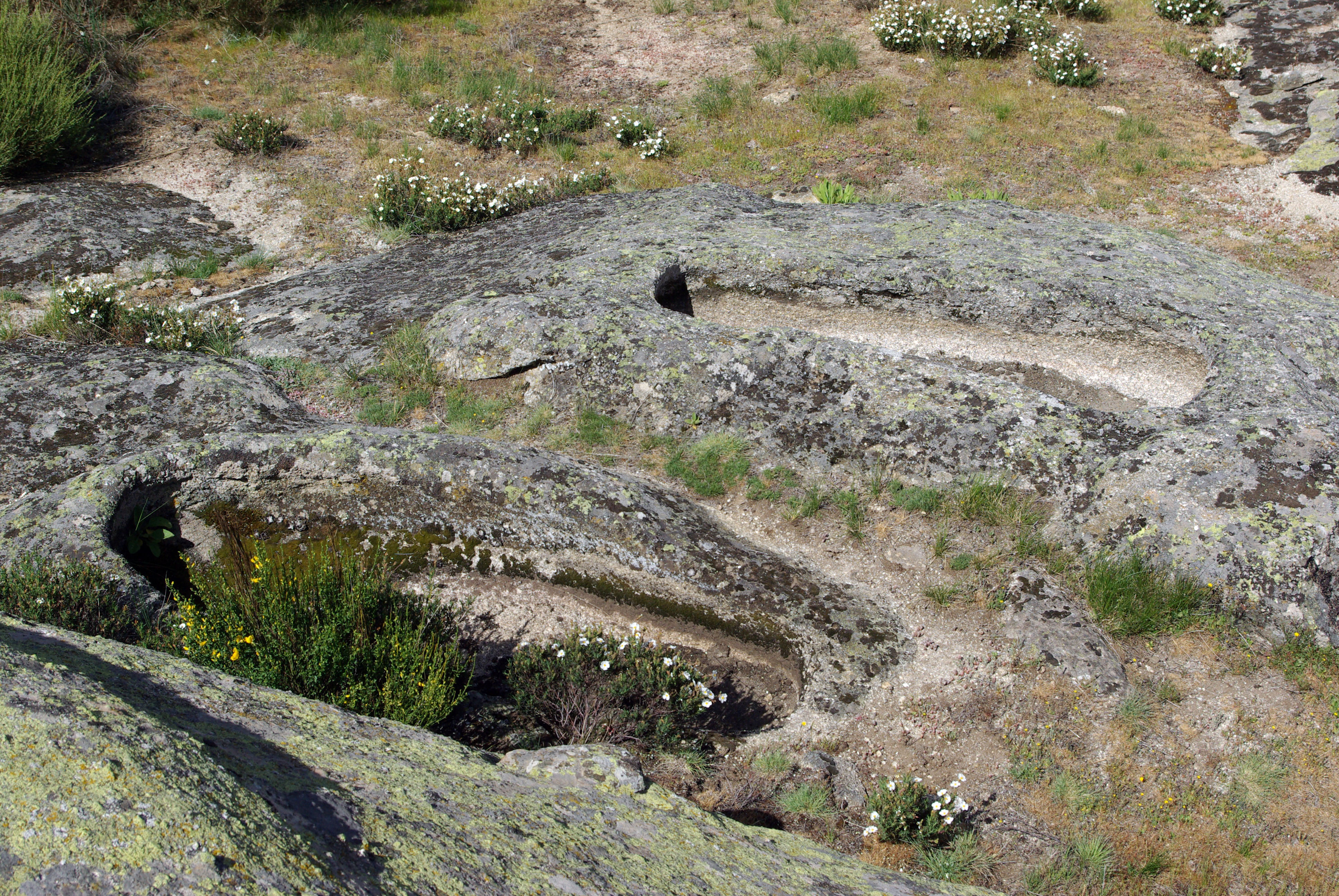 Tombs of necropolis of La Coba (Zone 1), near San Juan del Olmo, Province of Ávila (Spain)